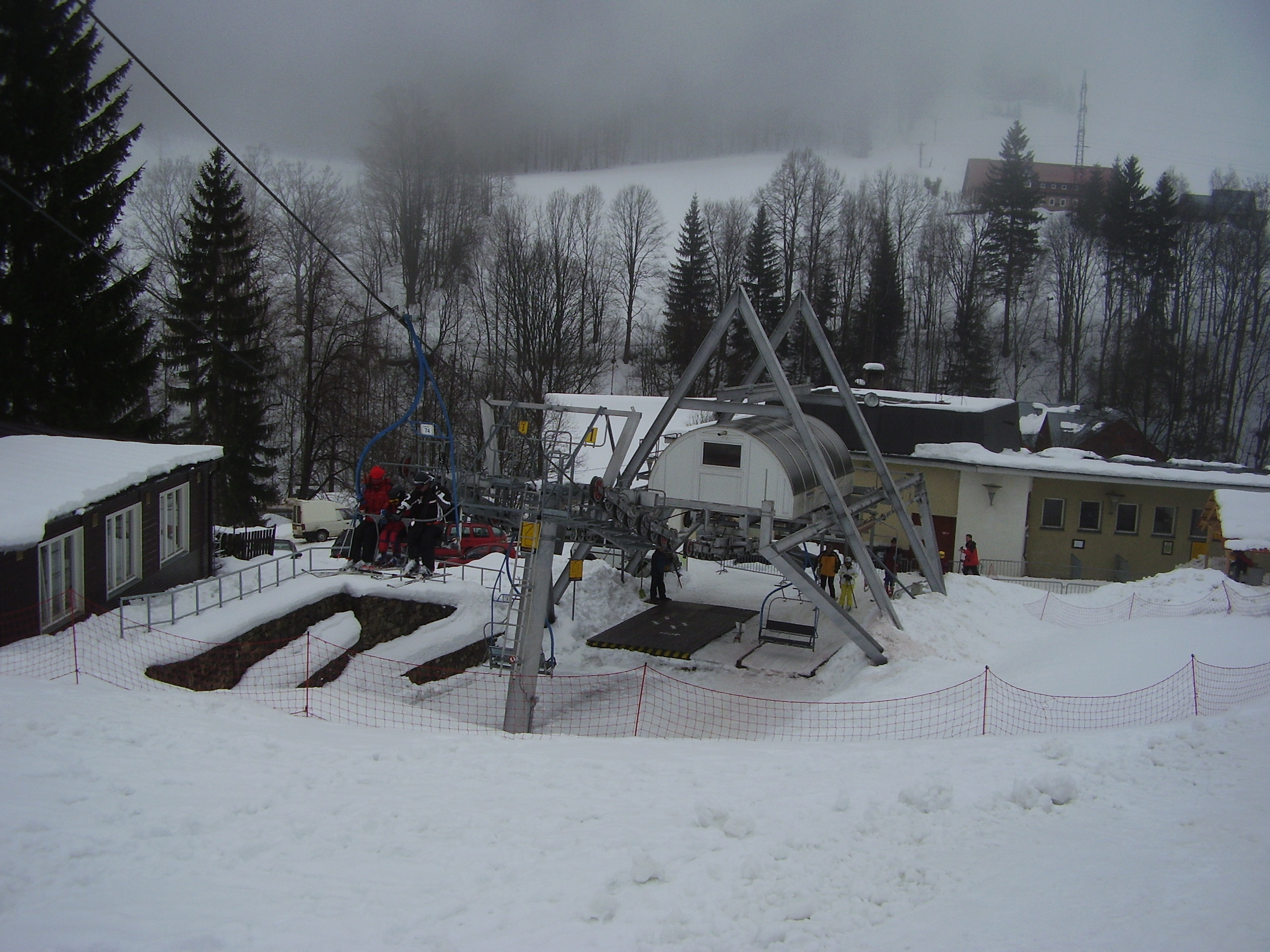 Chairlift Velká Úpa – Portášovy boudy, station Portášovy boudy, Velká Úpa, Kronoše